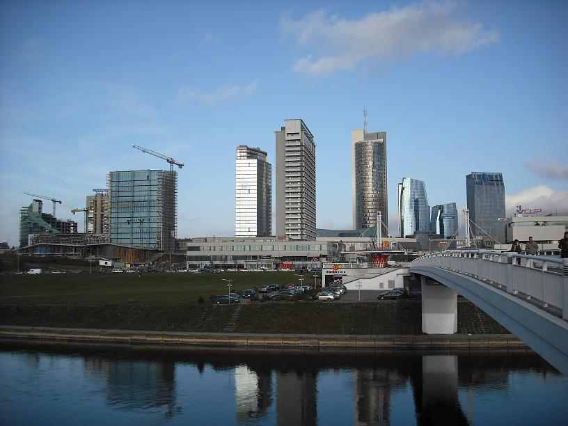 Vilnius